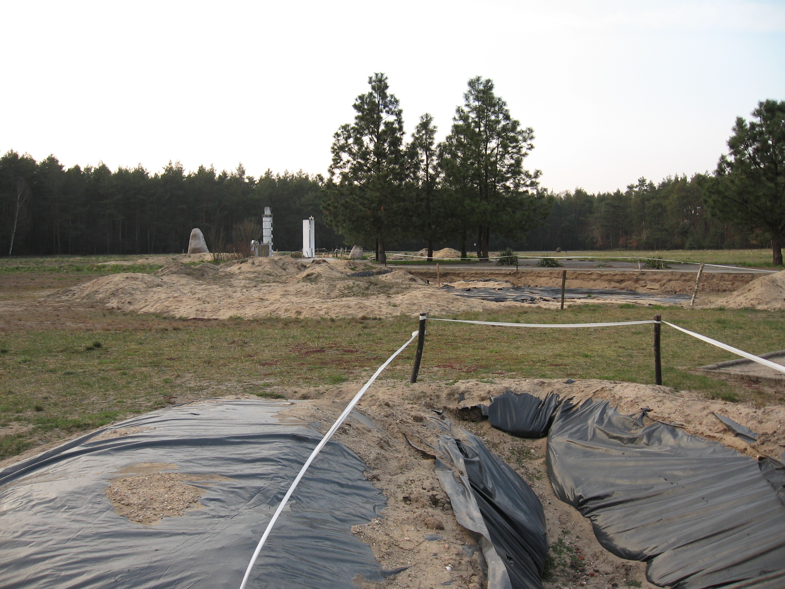 Colmhuf - Kulmhof was established in December 1941 the first extermination camp, the Polish village of Chelmno District voice - Kolo, 70 km west of Lodz. Chelmno camp was the first camp gas mass murdered in the "final solution\". He was the first deat